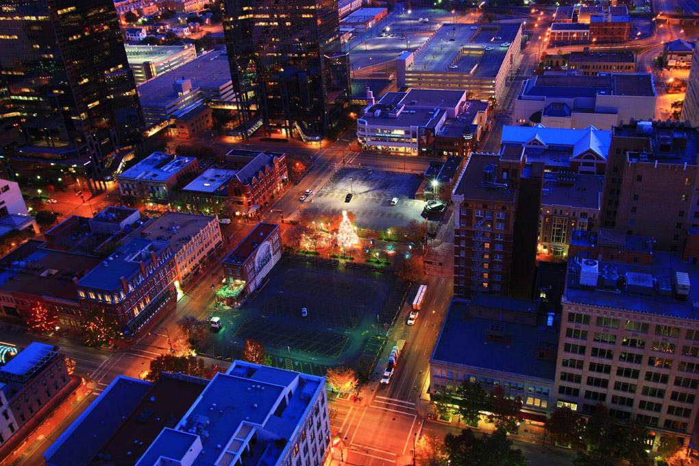 Fort Worth Sundance Square Christmas Tree on Main Street in Downtown